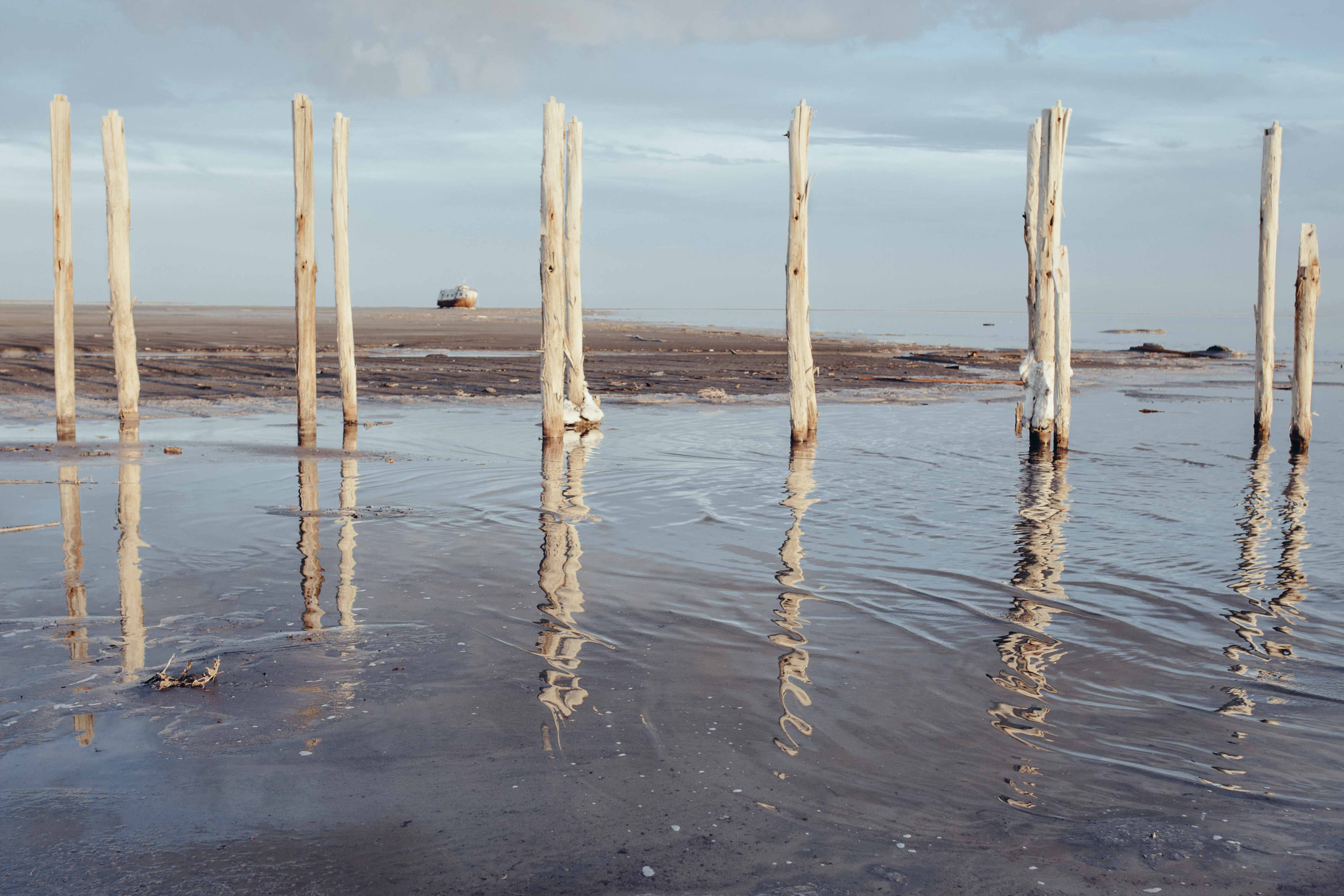 Remnants of a dilapidated dock inside water. Hopes for the salt lake’s survival revived after 2019 torrential rain has boosted a government programme aimed at preserving it before it dries up. Sharafkhaneh port|East-Azerbaijan|Iran| 2019